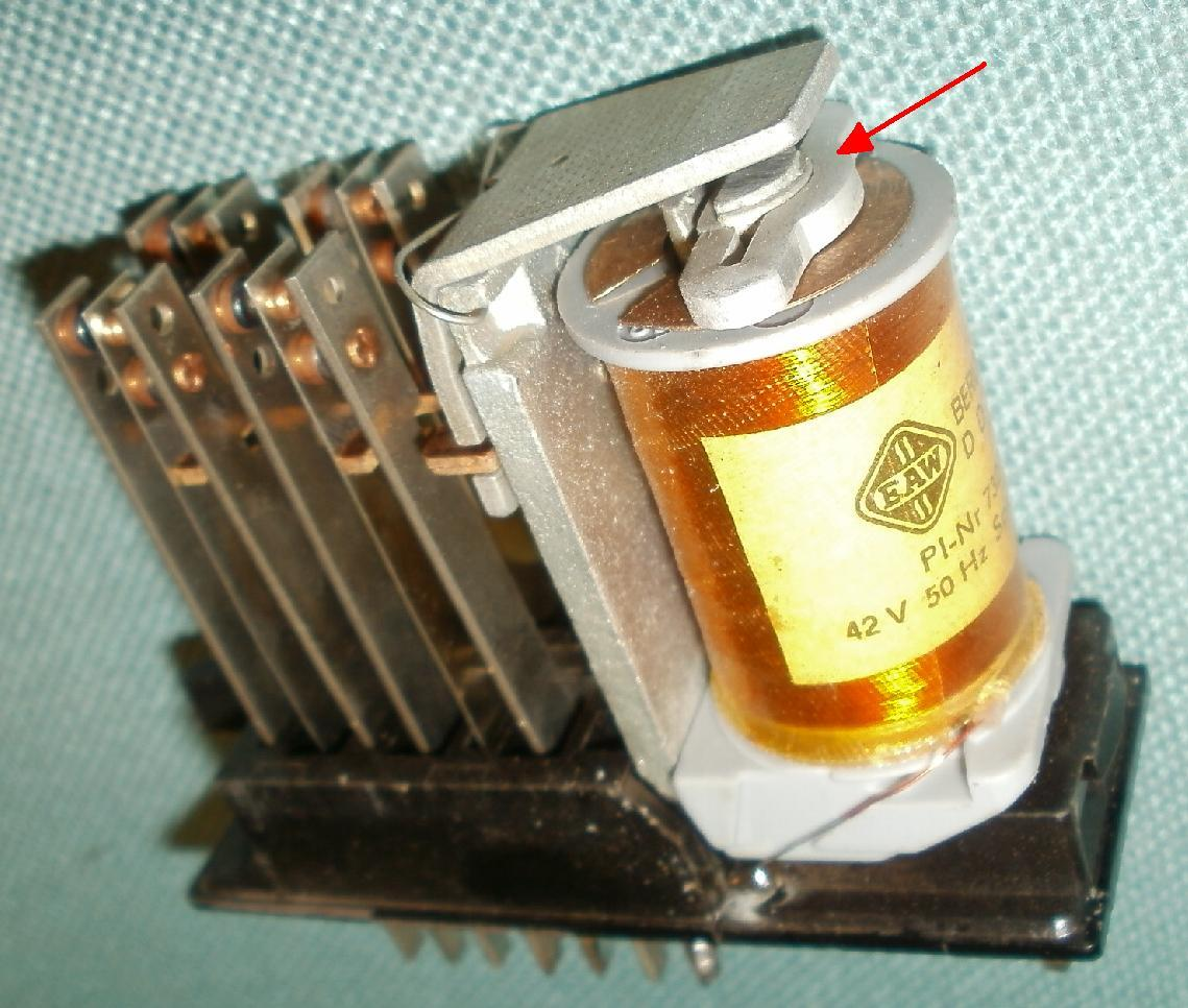 Relais with shading coil (arrow head) for operating with AC